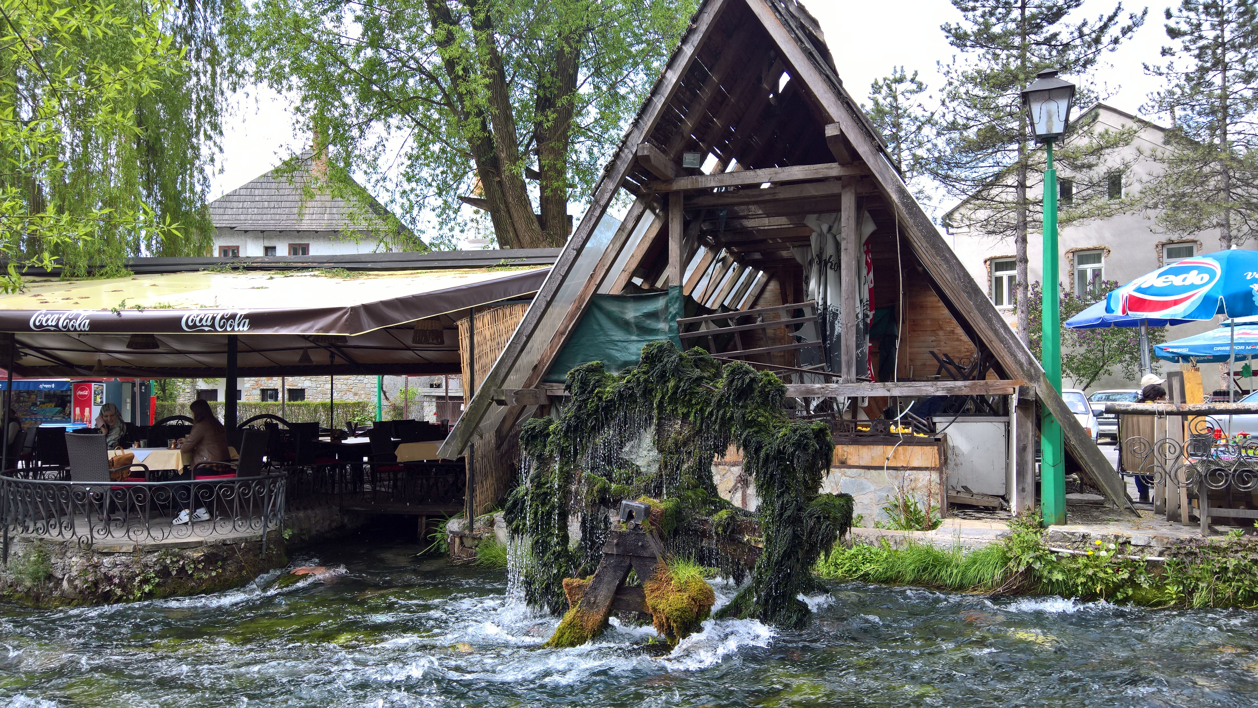 Plave vode old watermill